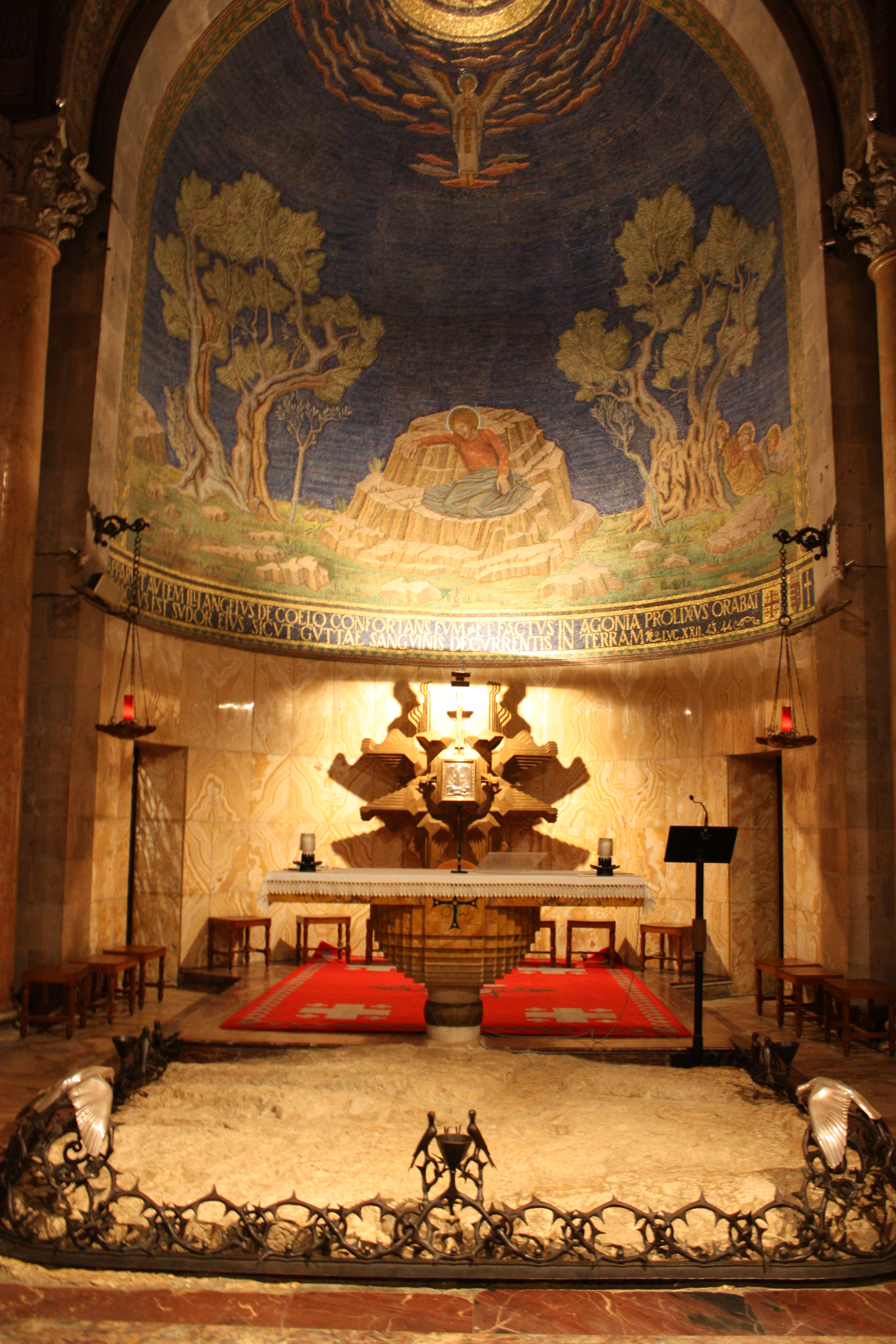 Church of All Nations in Gethsemane, Jerusalem.